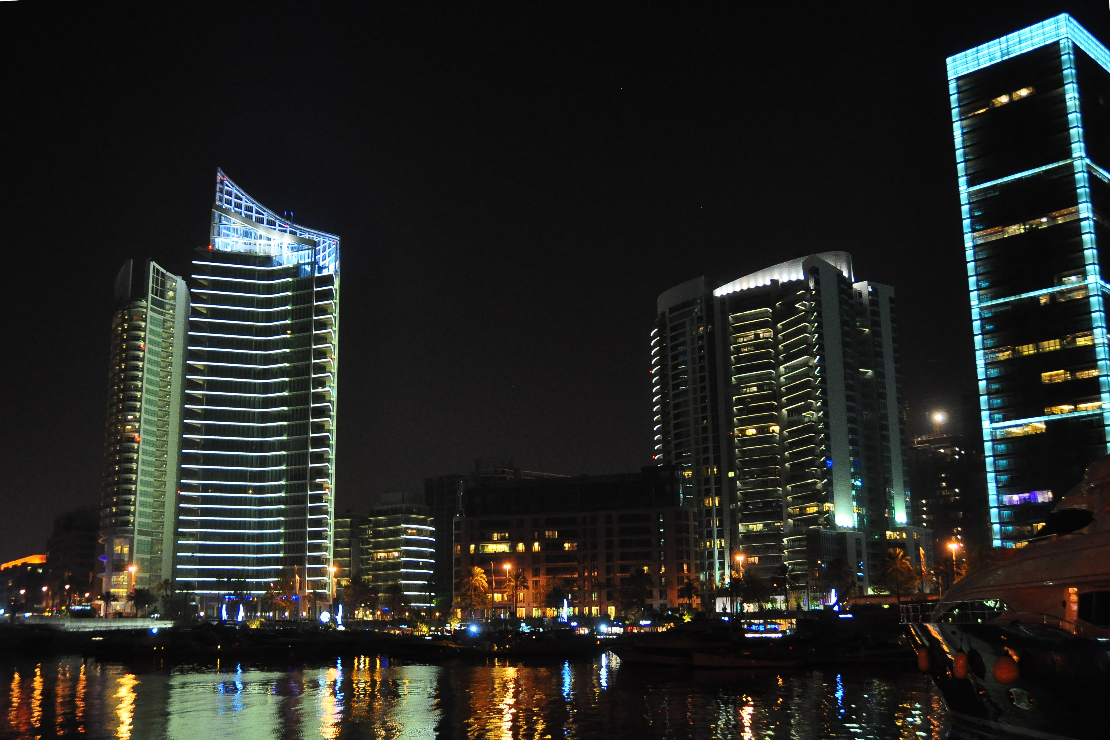 a night view of the waterfront towers in Zaitunay Bay, Downtown Beirut